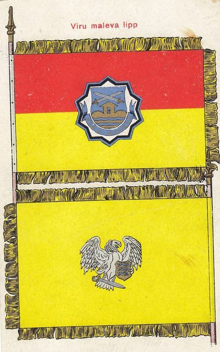 Flag of Defence League Viru regional unit